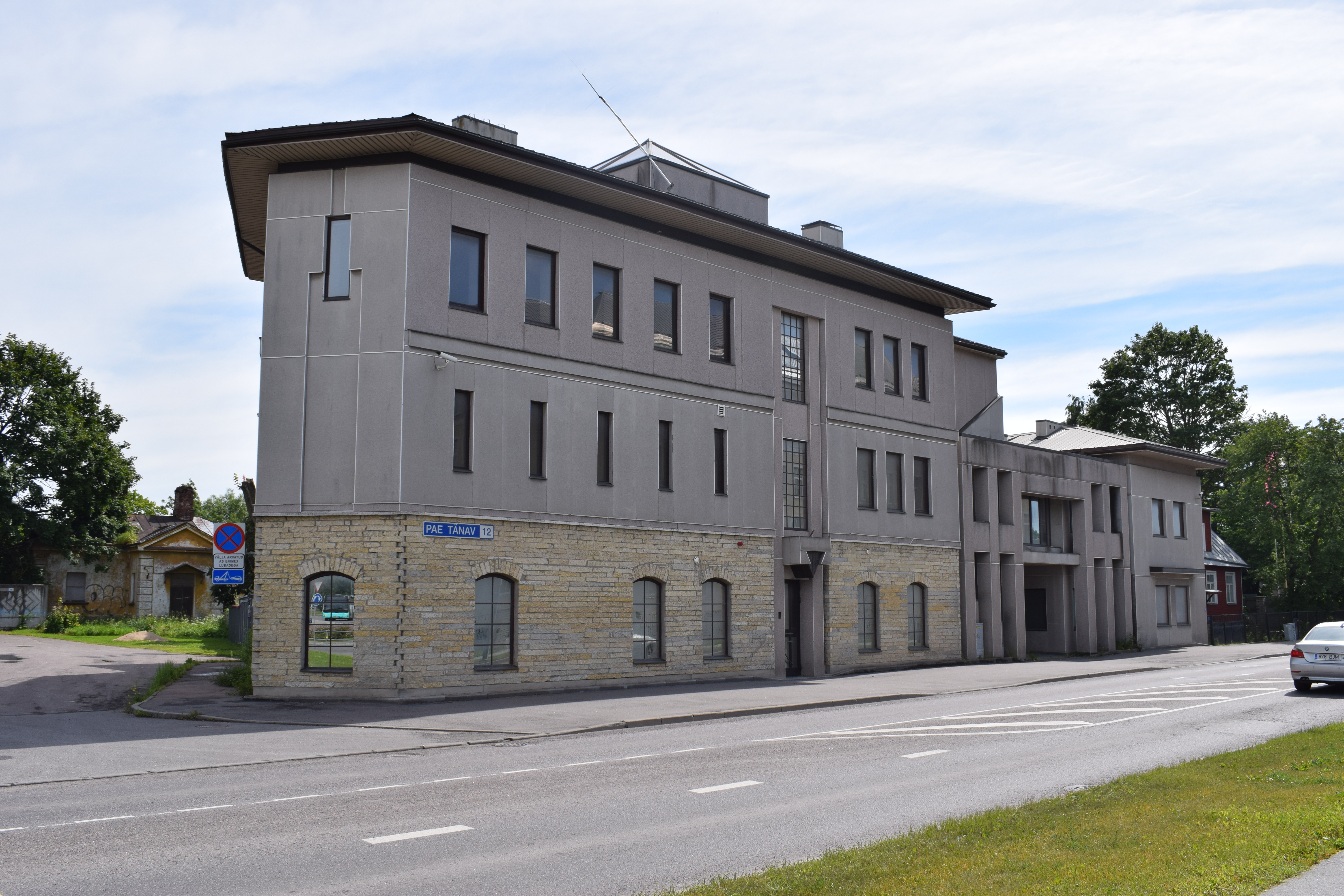 Pae street 12